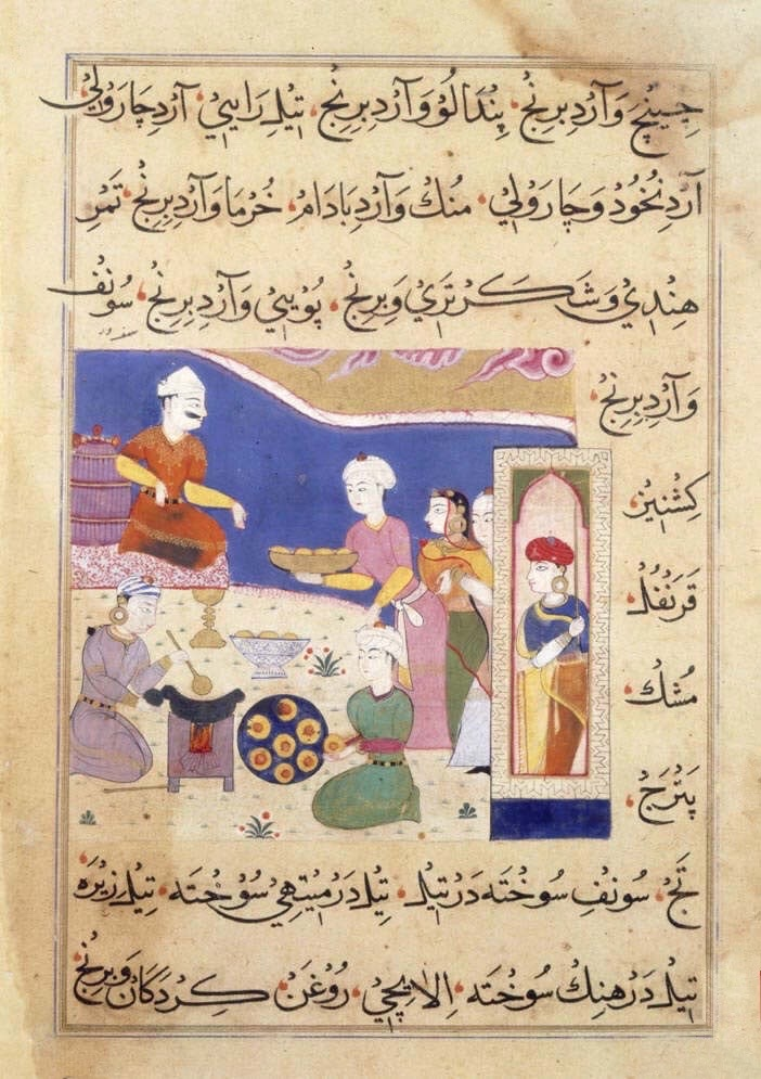 "Preparation of wada for the Sultan Ghiyath al-Din, the Sultan of Mandu. Samosas being prepared. Small inscription 'sanbusa', samosa. Ghiyath Shahi seated on a stool in a garden is being offered a dish, possibly of samosas. A cook is frying them over a stove, while another is placing them on a round dish. Opaque watercolour. Sultanate style. Title of Work: The Ni'matnama-i Nasir al-Din Shah. A manuscript on Indian cookery and the preparation of sweetmeats, spices etc., 1495-1505"* (BL)